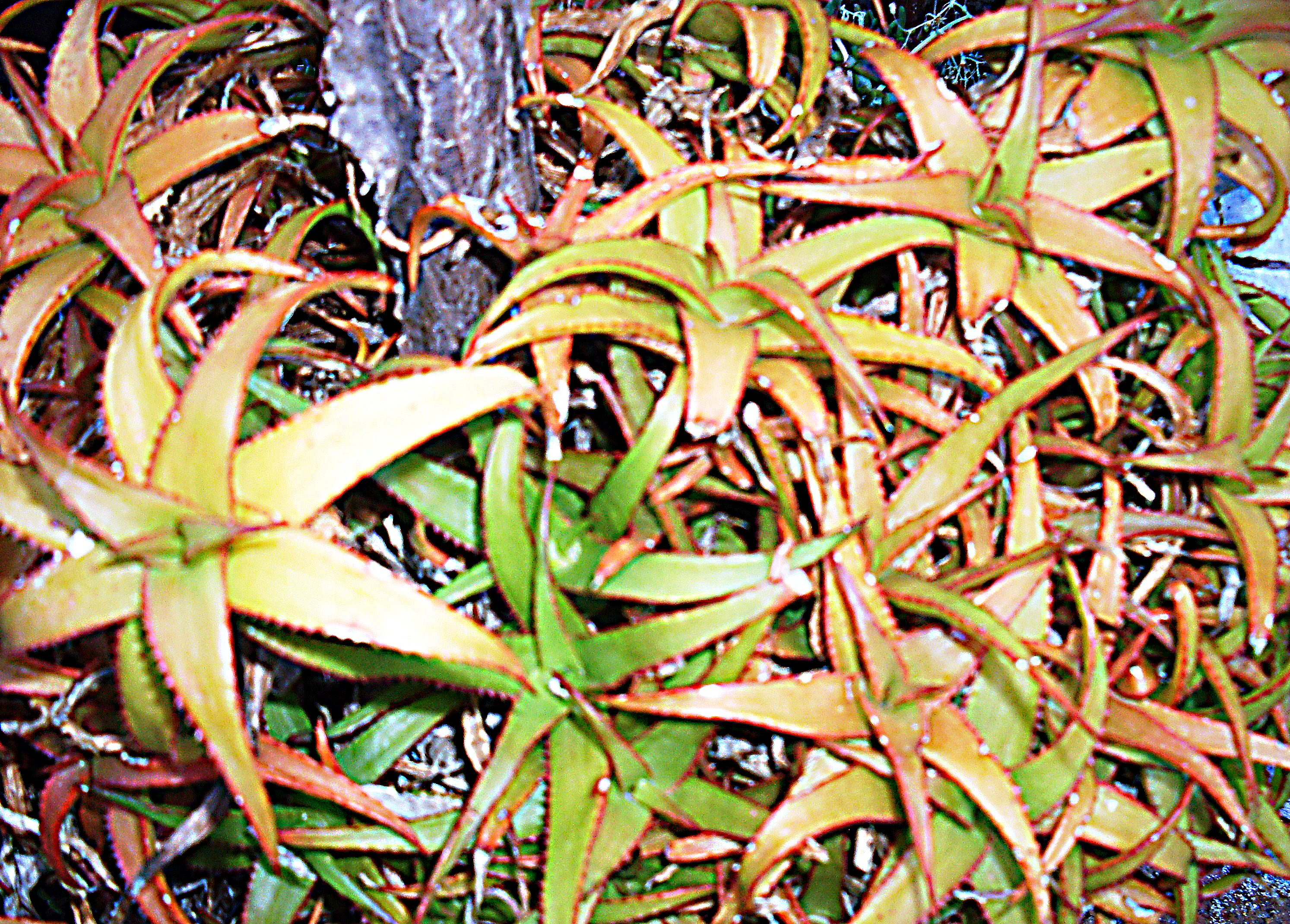 Aloe bruynsii of Madagascar.